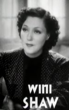 Screenshot of Wini Shaw from the trailer for the film Smart Blonde .